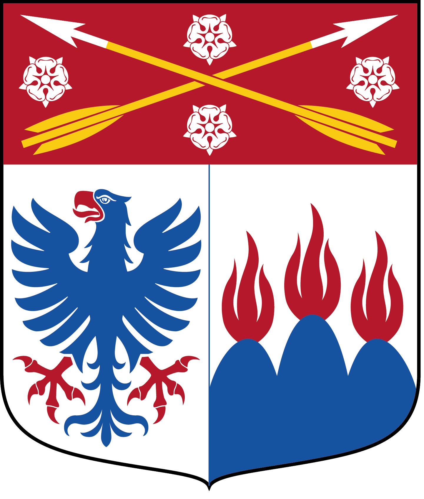 Coat of arms of the county of Örebro, Sweden. Painted by Vladimir A. Sagerlund when he was the heraldic artist at the National Archives of Sweden (Riksarkivet). This representation of a coat of arms is potentially different from the one used by the armiger (municipality or organisation) in question. = ⇑“Sable, a lionrampant or” This coat of arms was drawn based on its blazon which – being a written description – is free from copyright. Any illustration conforming with the blazon of the arms is considered to be heraldically correct. Thus several different artistic interpretations of the same coat of arms can exist. The design officially used by the armiger is likely protected by copyright, in which case it cannot be used here.Individual representations of a coat of arms, drawn from a blazon, may have a copyright belonging to the artist, but are not necessarily derivative works. Further information: Commons:Coats of arms and Template:Coa blazon